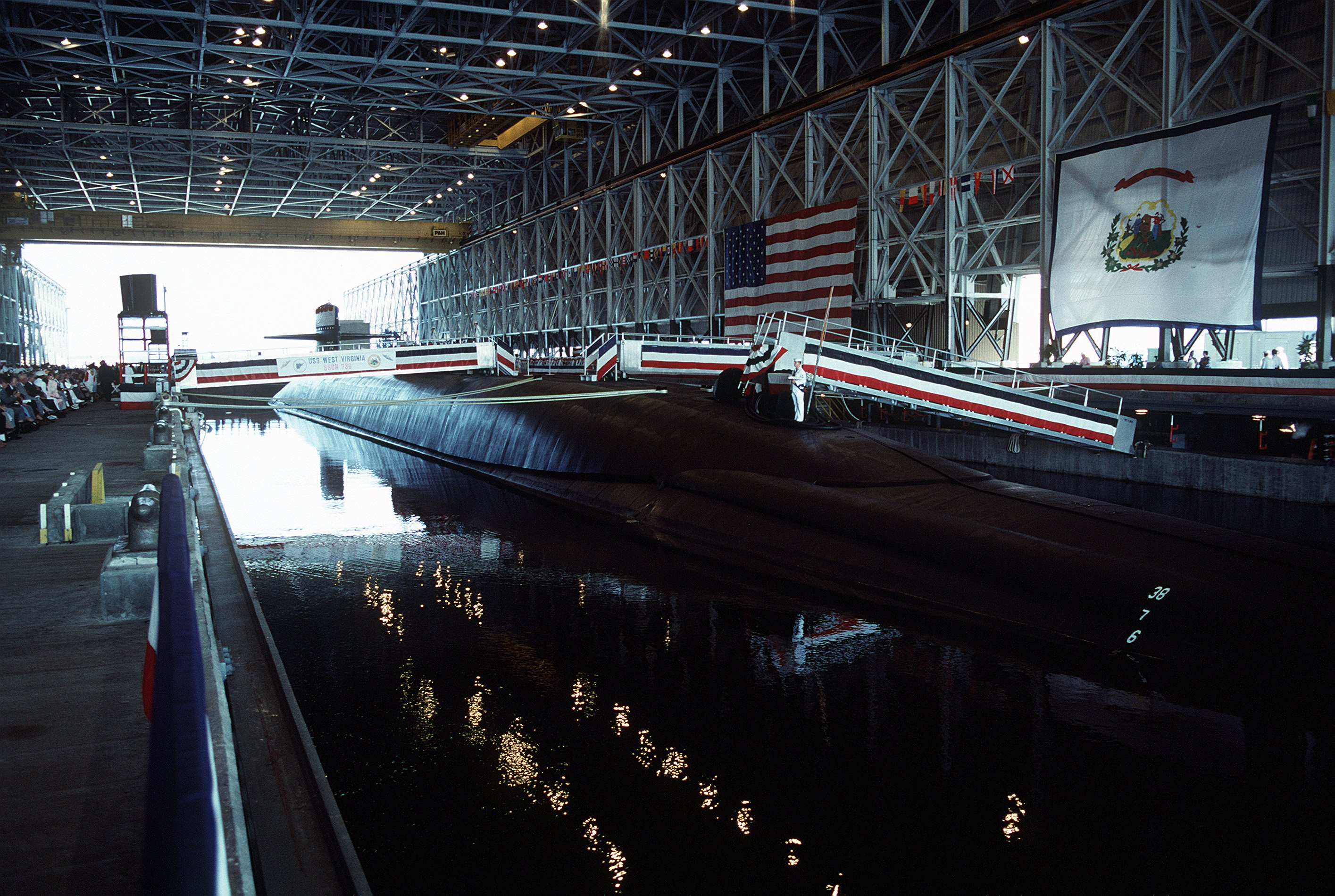 ID: DN-ST-91-01584 Service Depicted: Navy Command Shown: N1601 The nuclear-powered fleet ballistic missile submarine USS WEST VIRGINIA (SSBN-736) lies in a covered dry dock on the day of its commissioning ceremony. Location: NAVAL SUBMARINE BASE, KINGS BAY, GEORGIA (GA) UNITED STATES OF AMERICA (USA)